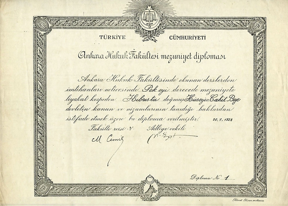 First Diploma given by Ankara Law School